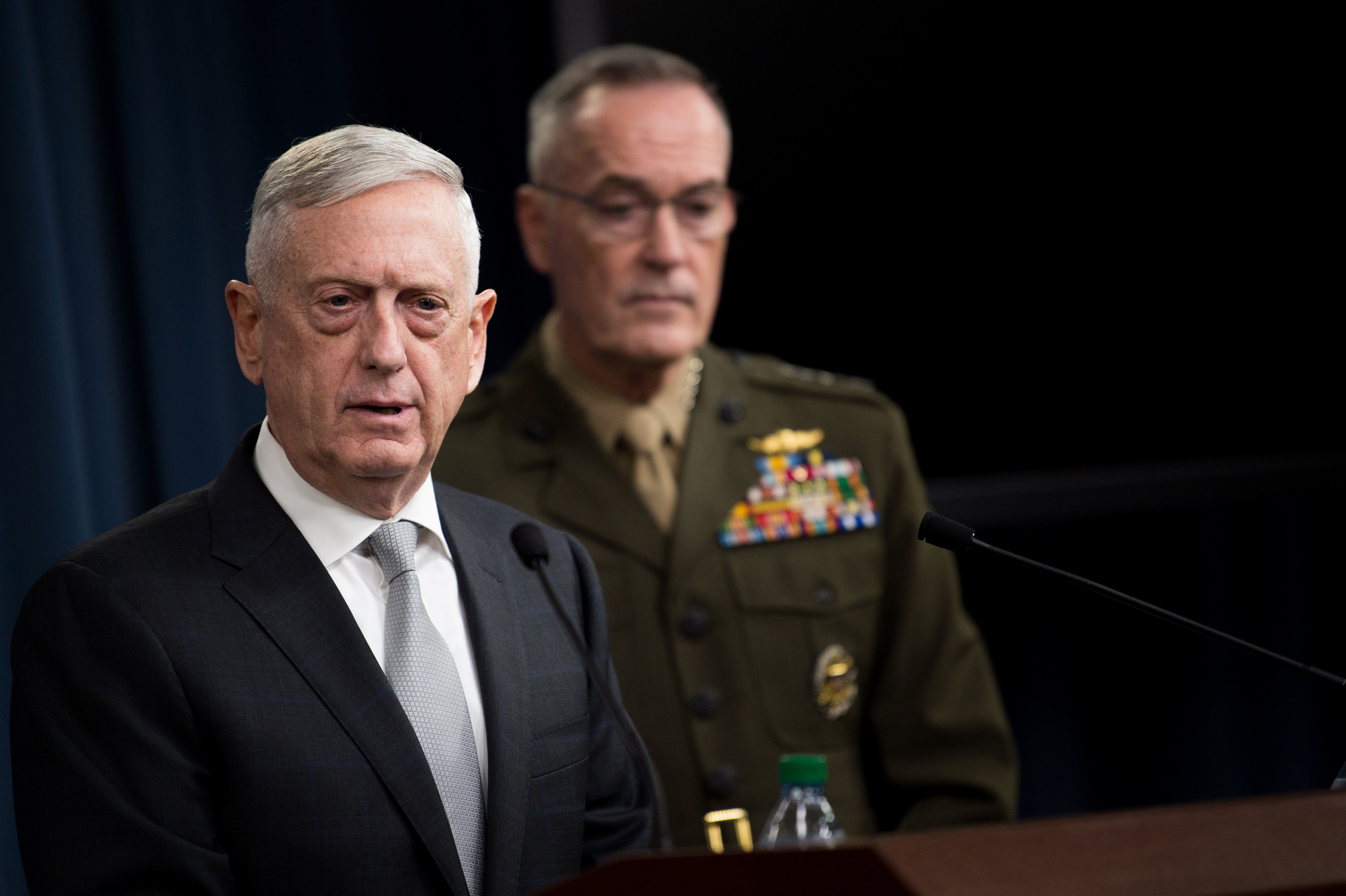 Defense Secretary James N. Mattis, the Chairman of the Joint Chiefs of Staff, Marine Gen. Joseph F. Dunford, Jr., brief reporters on the current U.S. air strikes on Syria during a joint press conference at the Pentagon in Washington, D.C., Apr. 13, 2018. (DoD photo by U.S. Army Sgt. Amber I. Smith)